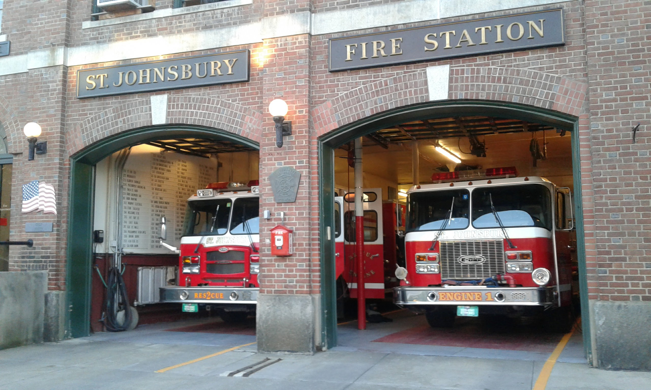 Two E-One fire engines parked in the St. Johnsbury, Vermont fire station.